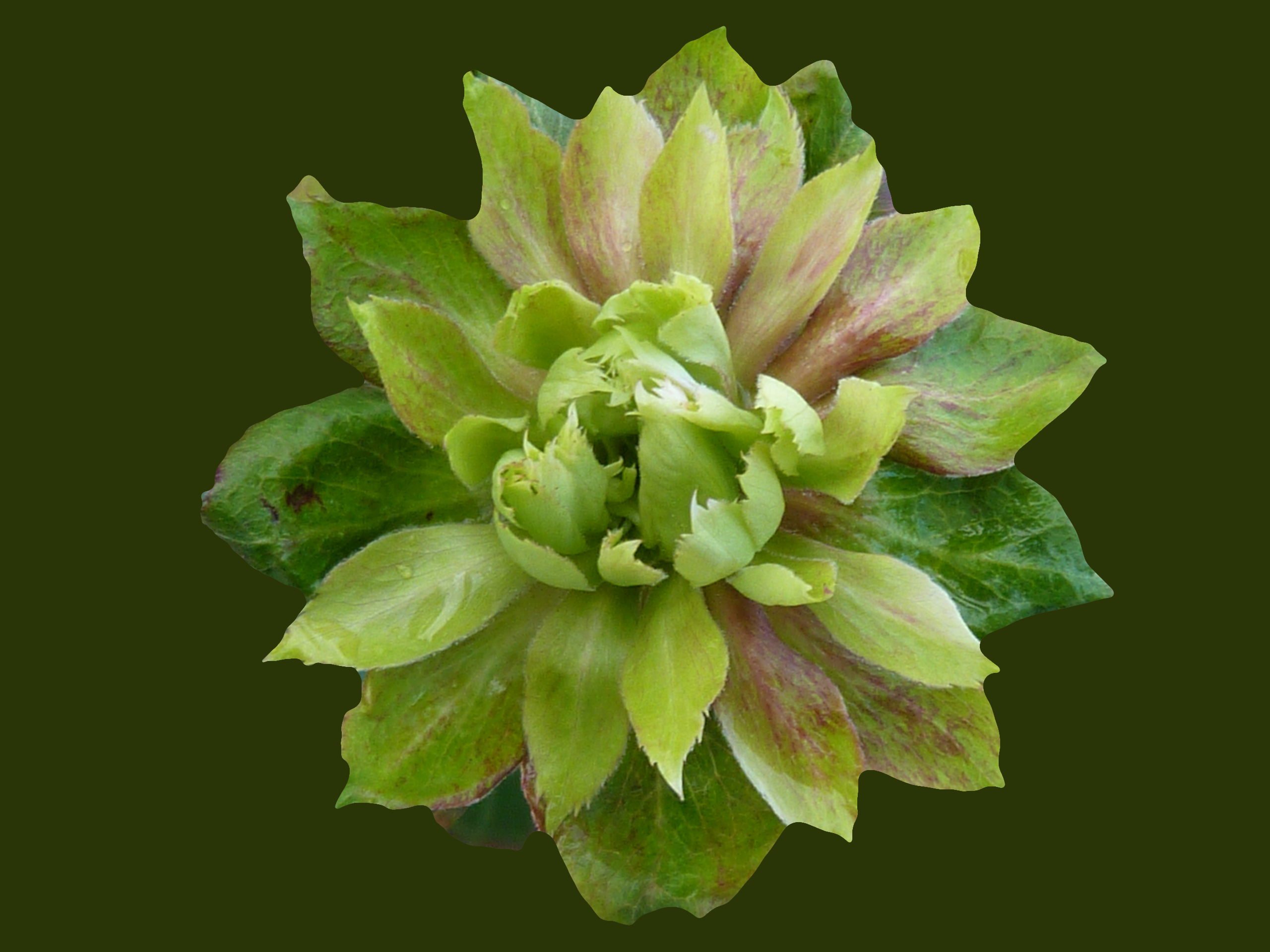 ‘Viridiflora Green Rose’ is a most unusual rose in that its strange blooms are made up entirely of sepals rather than petals. Supposedly in cultivation since 1743. Photo taken July 19th, 2010 at Hope Cottage Museum, Kingscote, Kangaroo Island